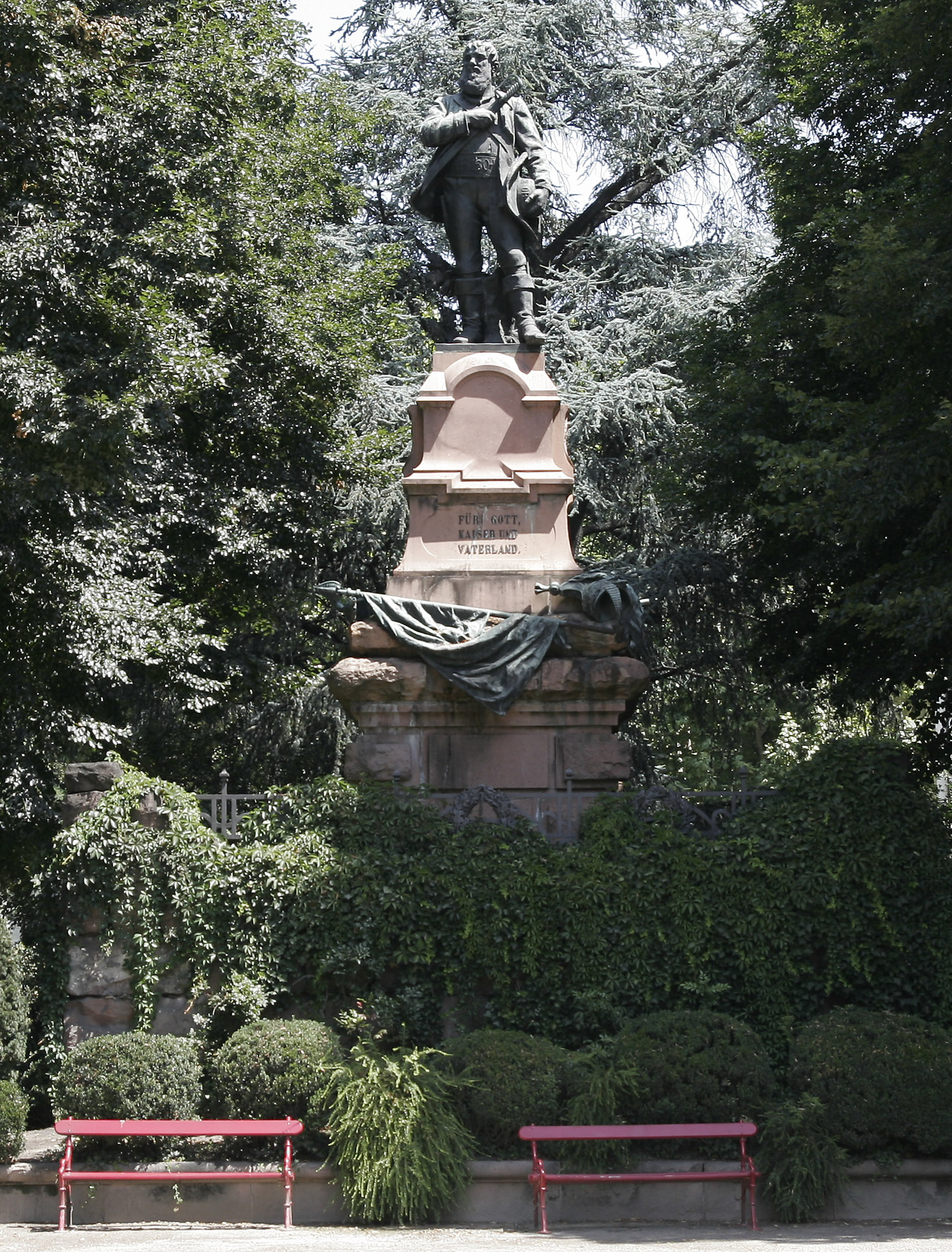 Statue of Andreas Hofer in Meran (South Tyrol)